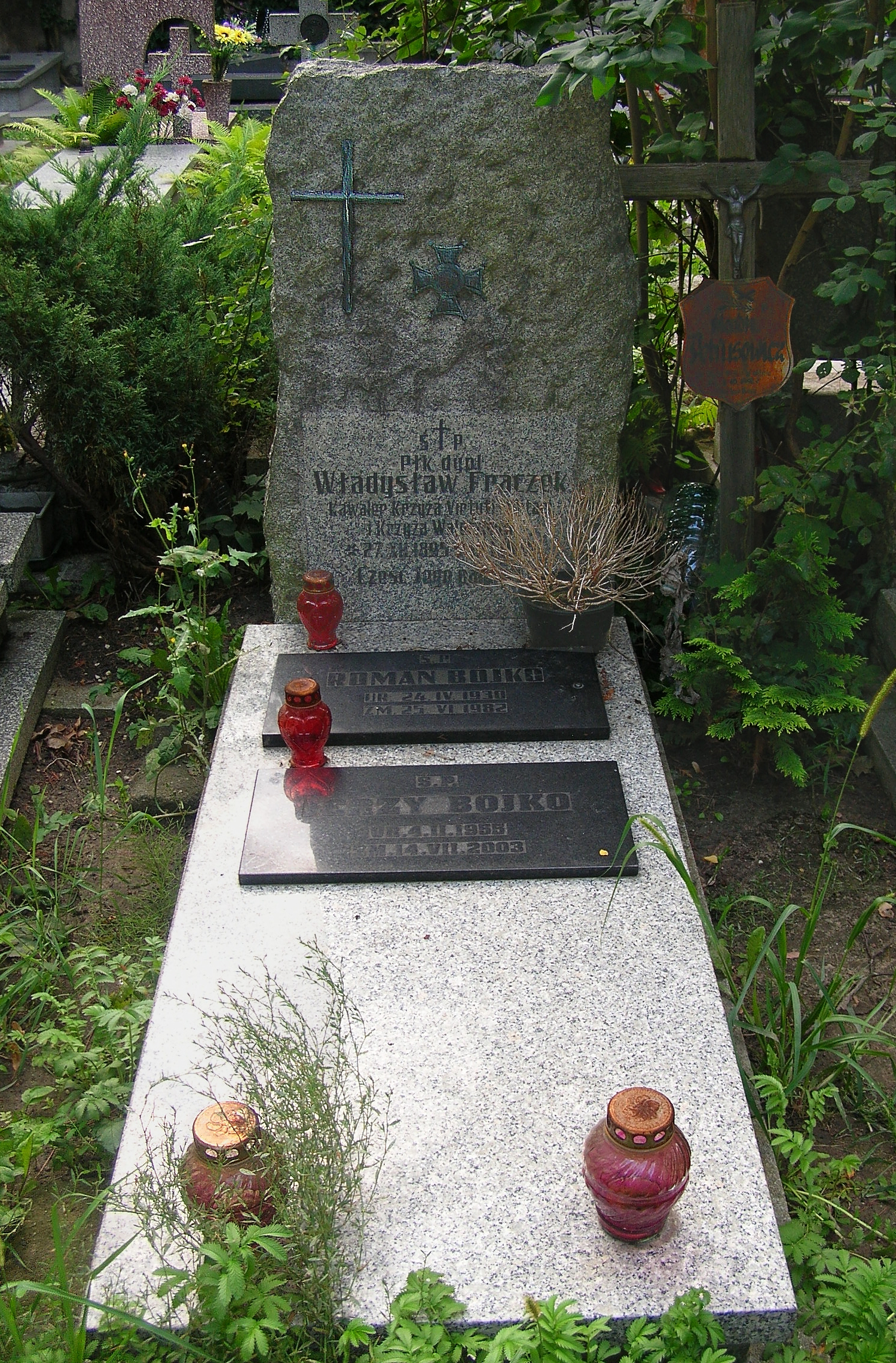 Tomb of Władysław Frączek in Wrocław